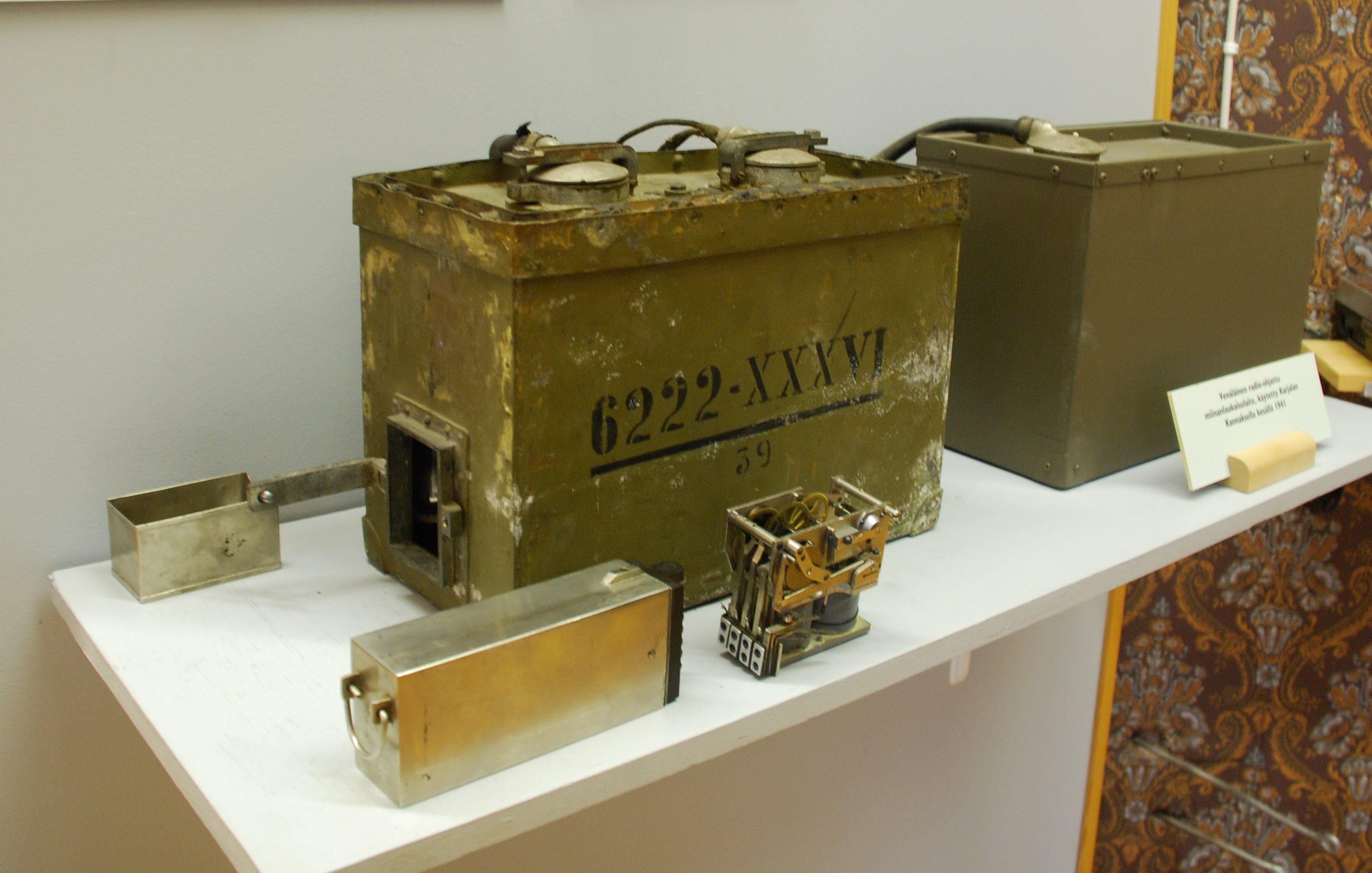 Soviet remote-controlled radio fuzes, left armed and ready to go off in 1941 in Vyborg area. This set, quite obviously, was retrieved and disarmed by the Finns.